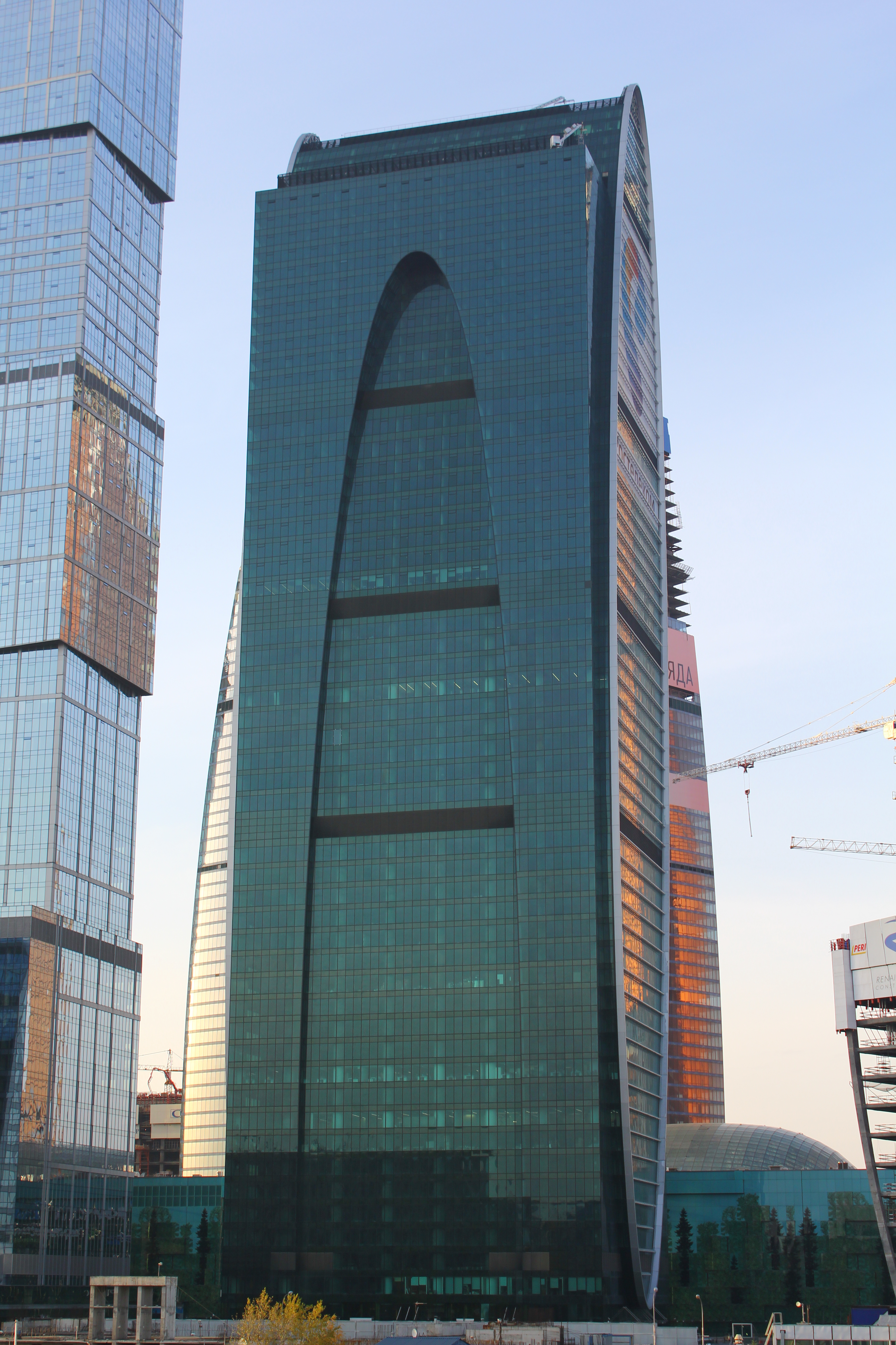 Imperia Tower 20th October 2012